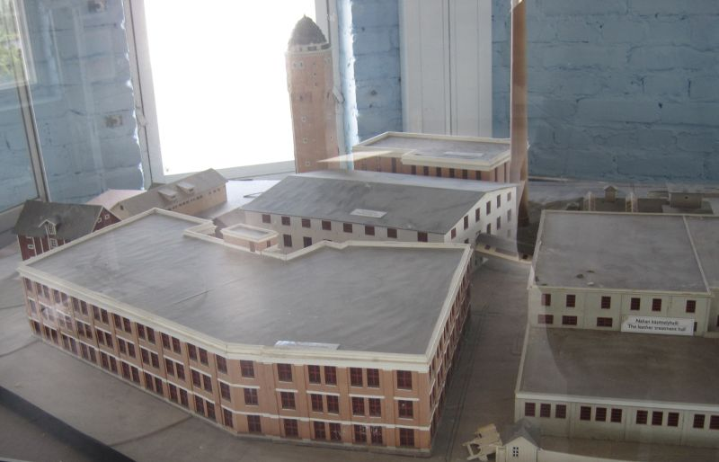 Model of Åström leather factory. Diorama in sciense world Tietomaa (Oulu, Finland)